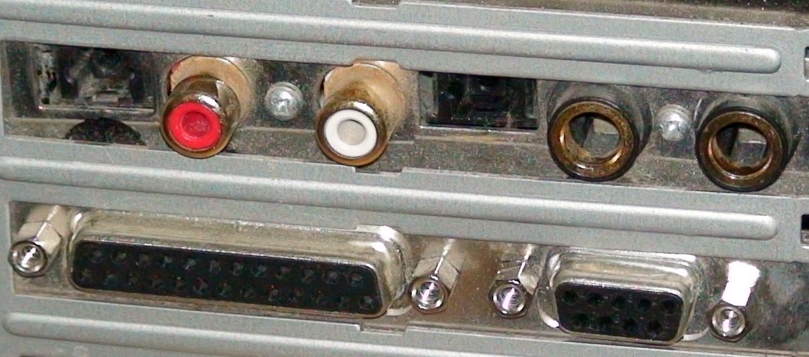 Computer Audio Interface Cards with TOP: ADAT IN S/PDIF IN S/PDIF OUT ADAT OUT Analog Stereo Phone IN Analog Stereo Phone OUT, BOTTOM: TDIF I/O Monitor output (MDPA/HGC/CGA/EGA)